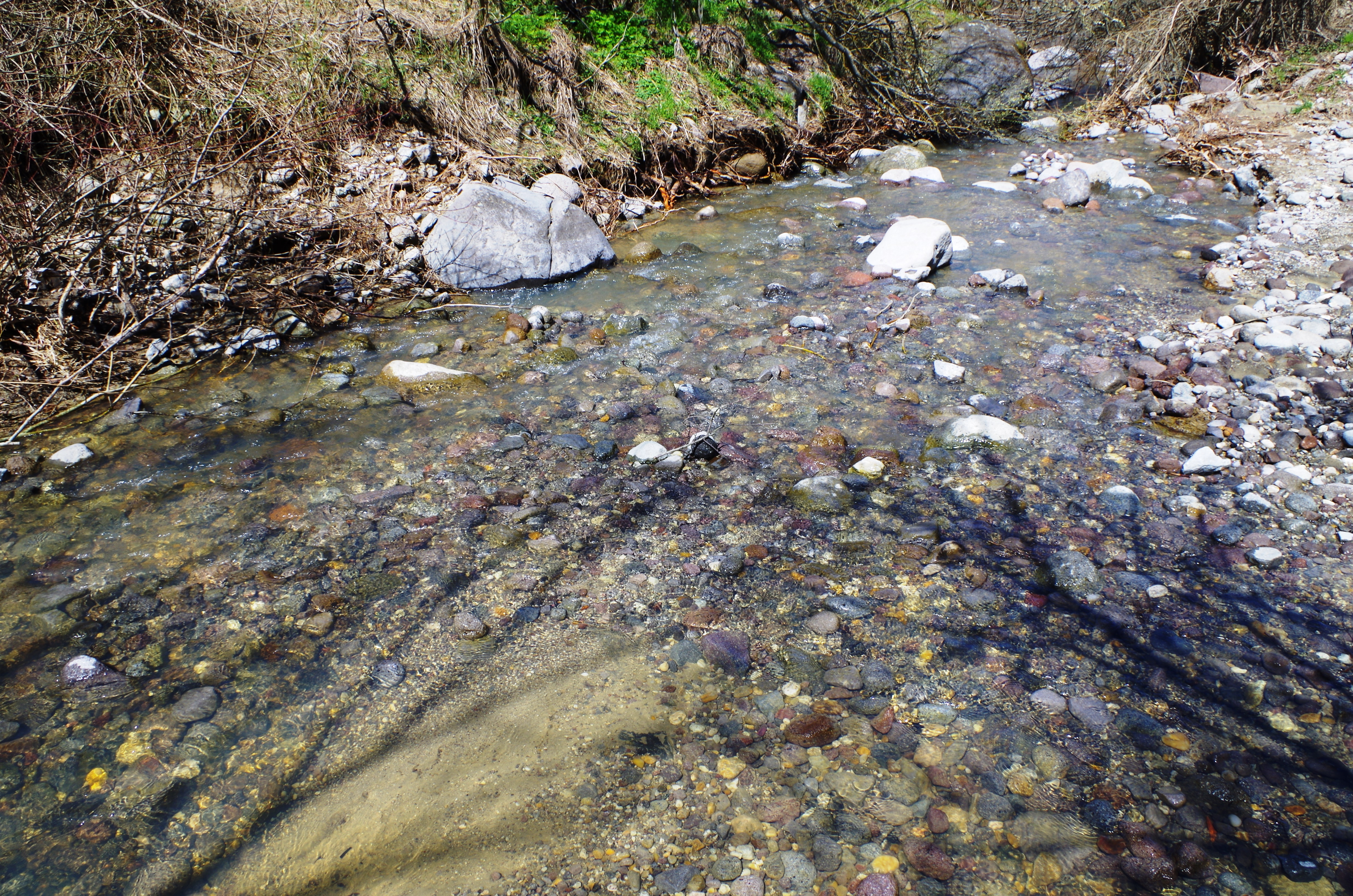 River in the village Gorni Disan